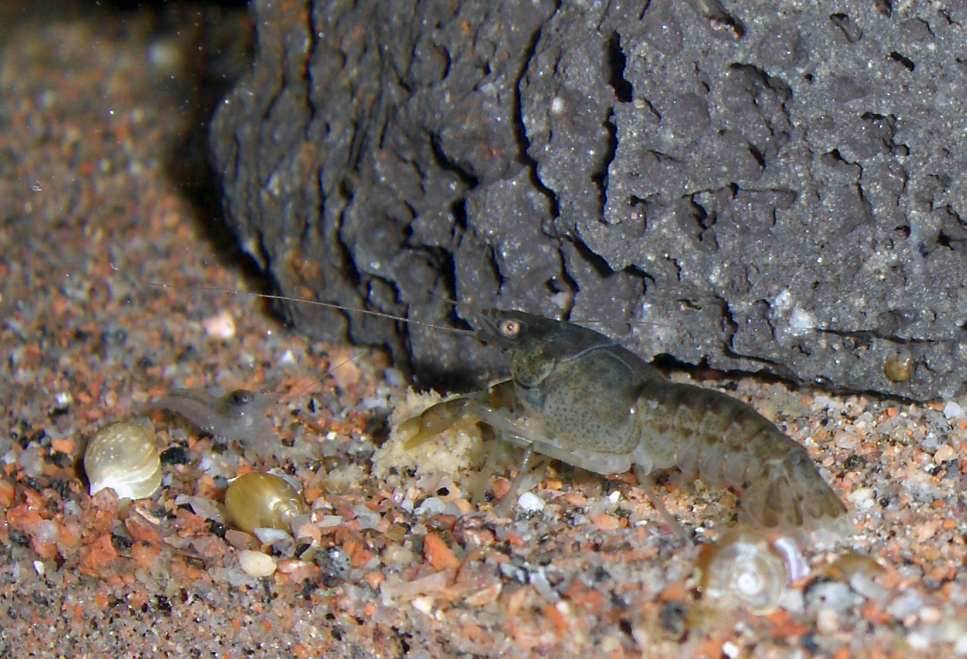 Adult male of Mexican dwarf crayfish, Cambarellus patzcuarensis. The body is about 3.5 centimetres long (approximately 1.38 inches) excluding claws. The small shrimp to the left is a "Snowball shrimp", Neocaridina cf. zhangjiajiensis "White", sometimes referred to as "White Pearl shrimp".